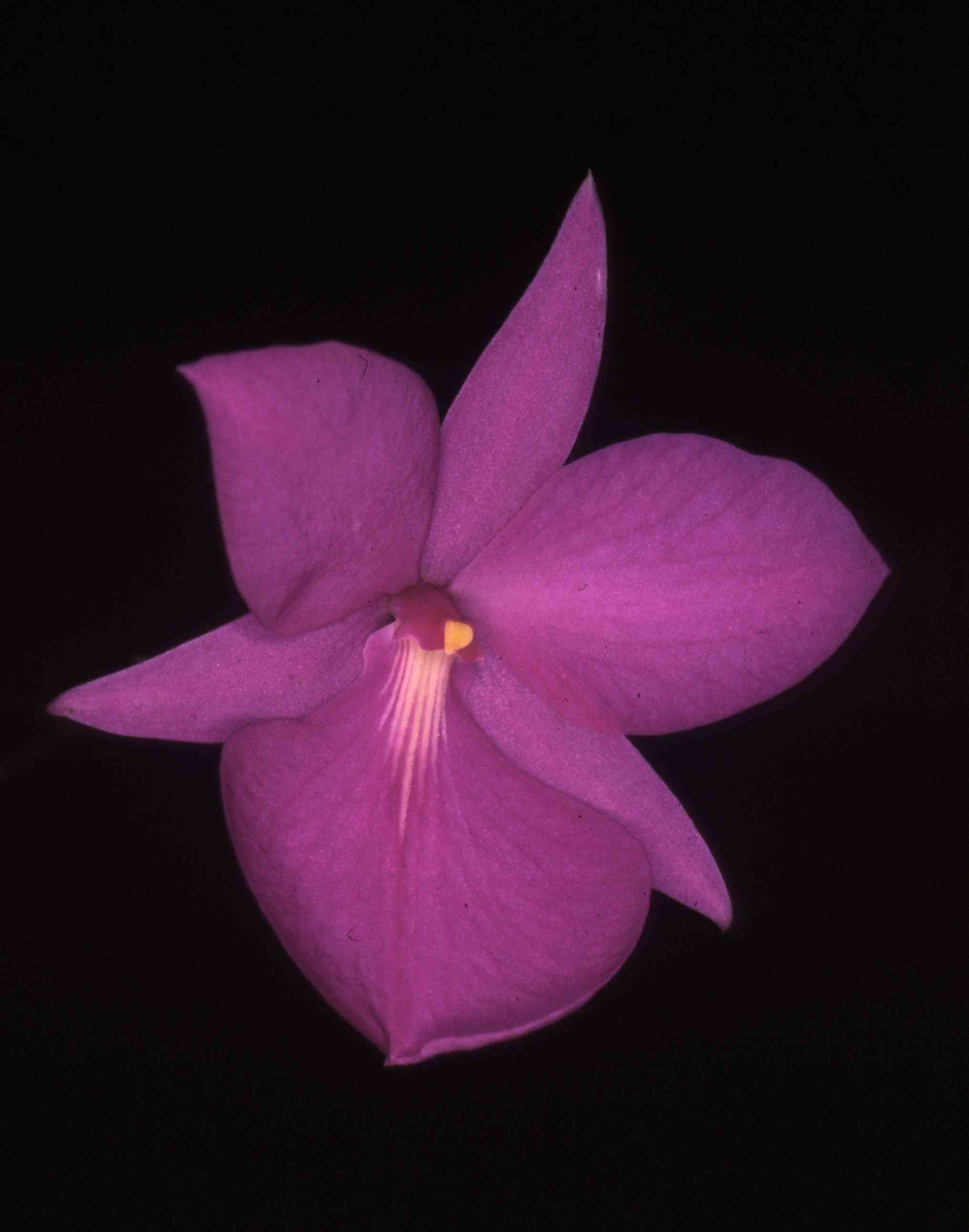 Flower of Adamantinia miltonioides Photo: Cássio van den Berg